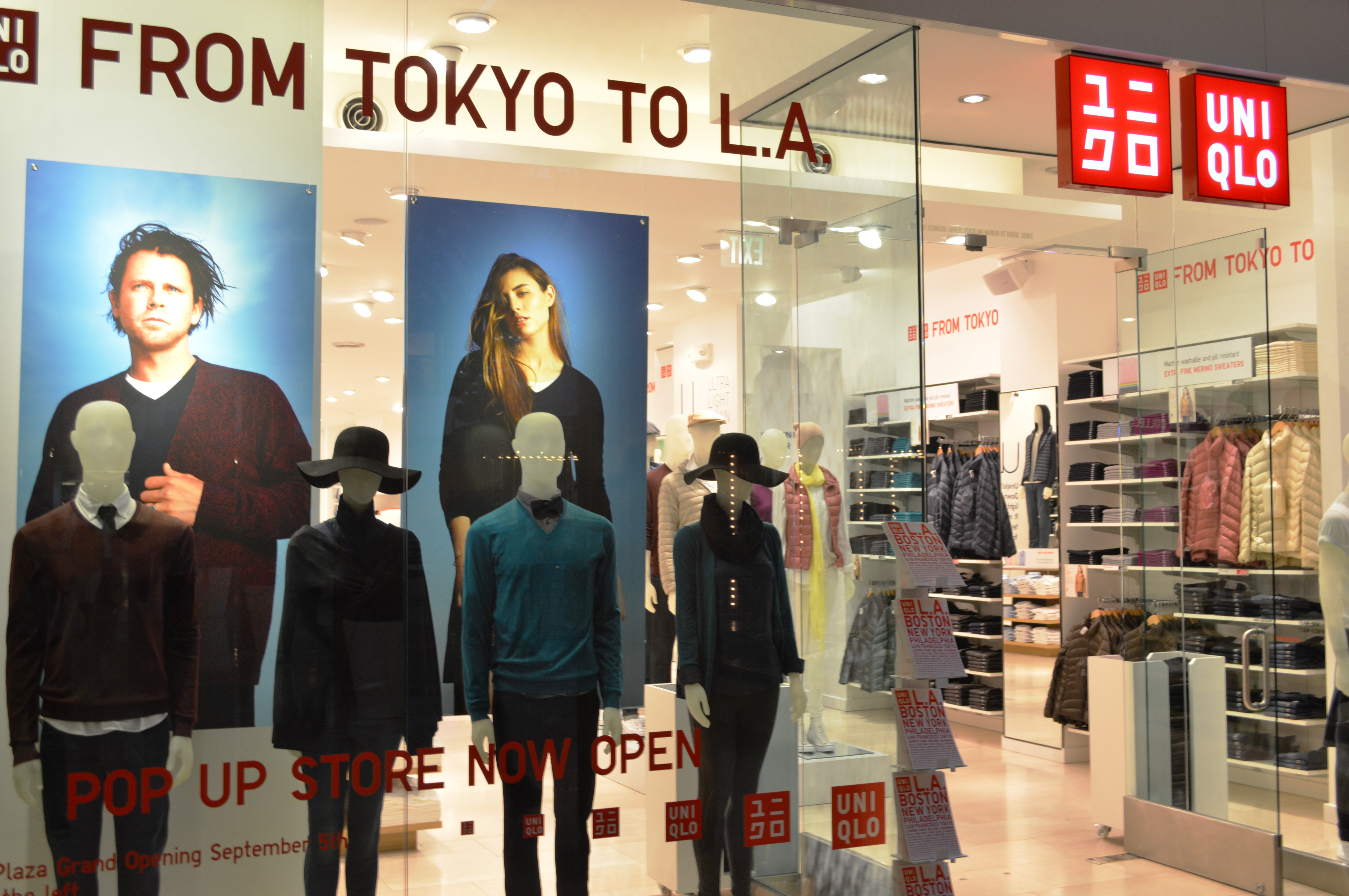 Uniqlo's "pop-up store" next to Disney Store and facing Carousel Court at South Coast Plaza - photographed 18 days before the official opening date.